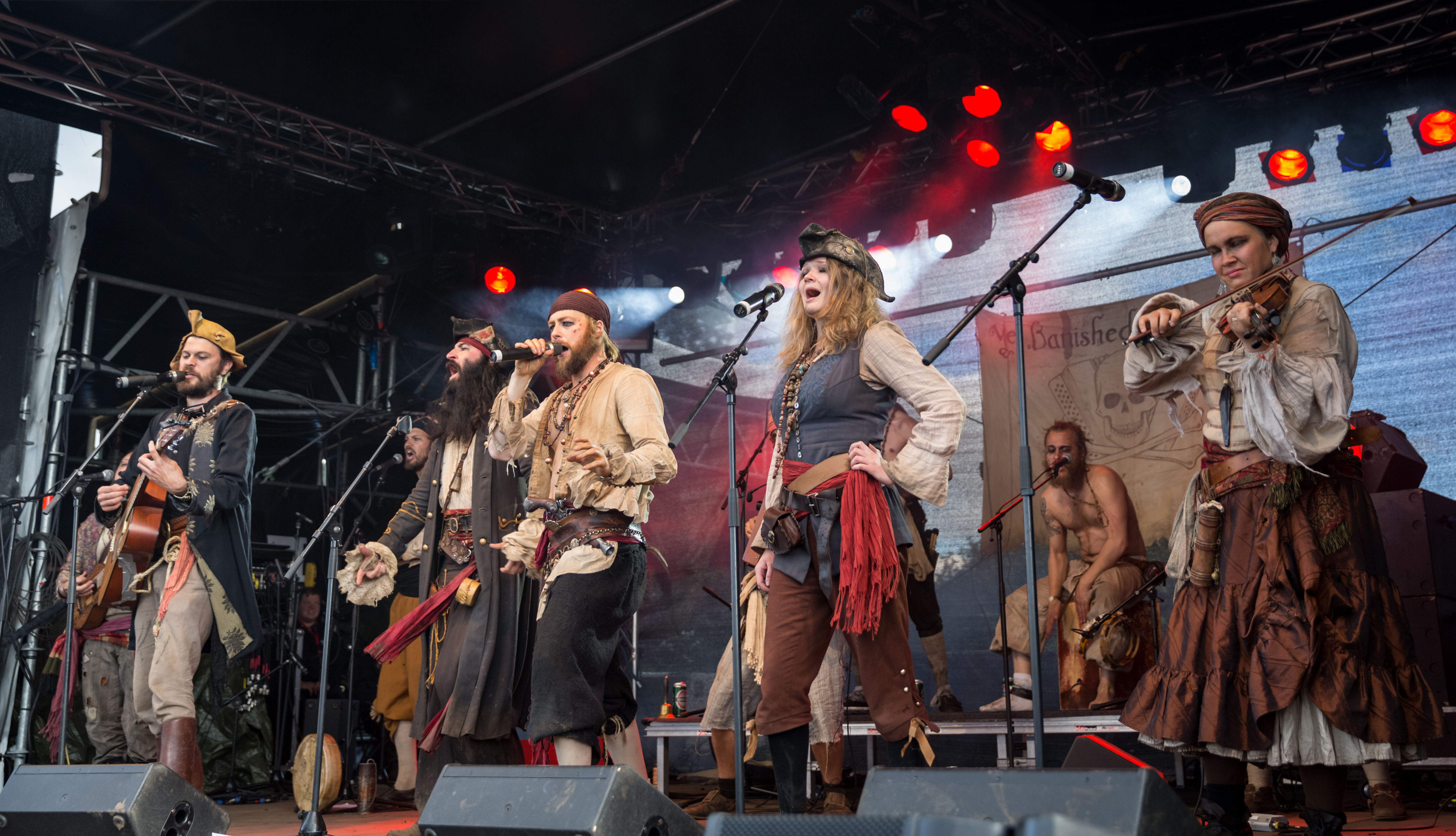 Ye Banished Privateers - Wacken Open Air 2015